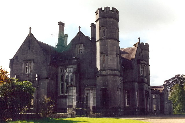 Longford - Carrigglas Manor House - Northeast view